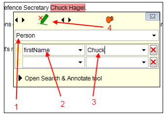 Annotation editor